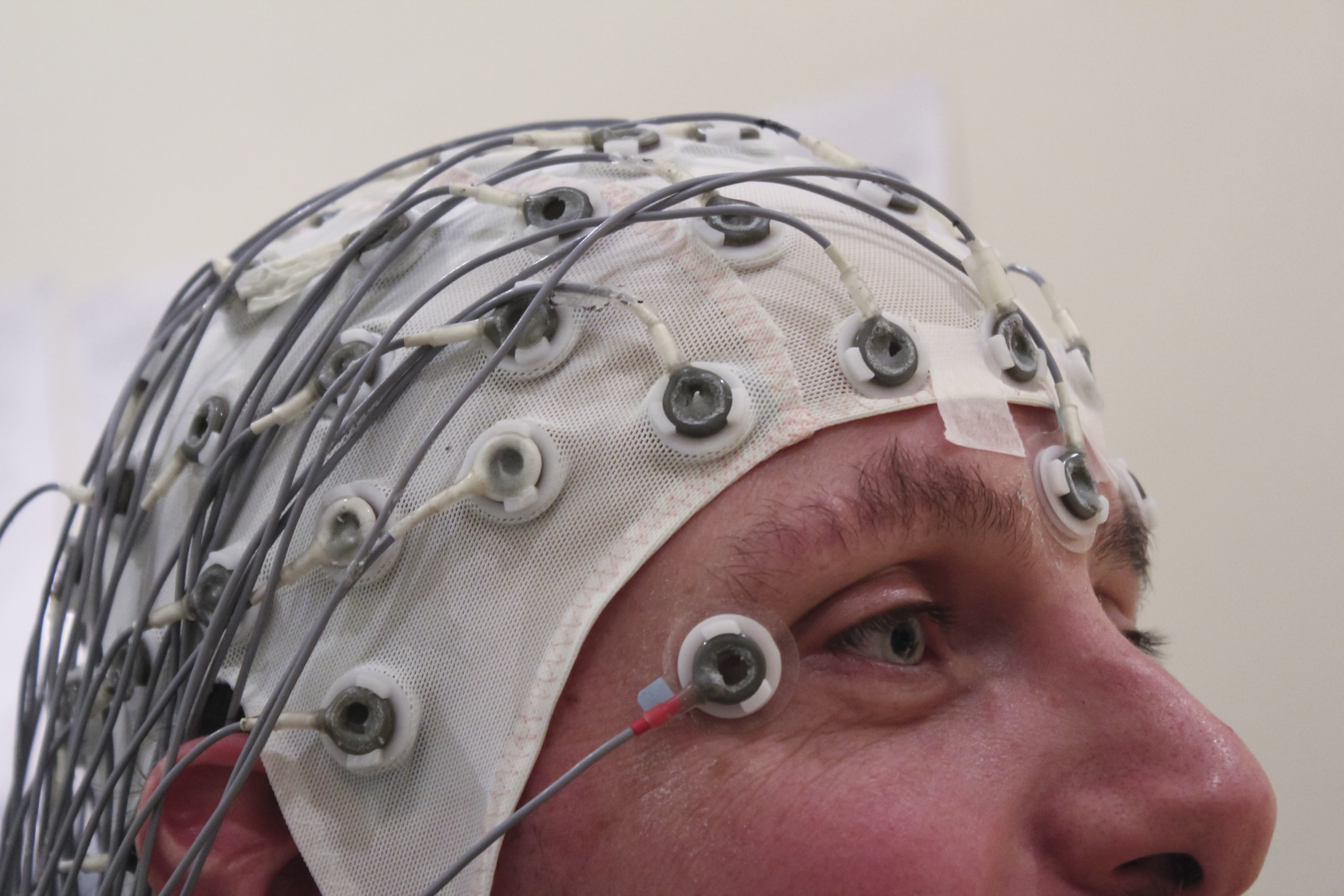 A cap holds electrodes in place while recording an EEG.